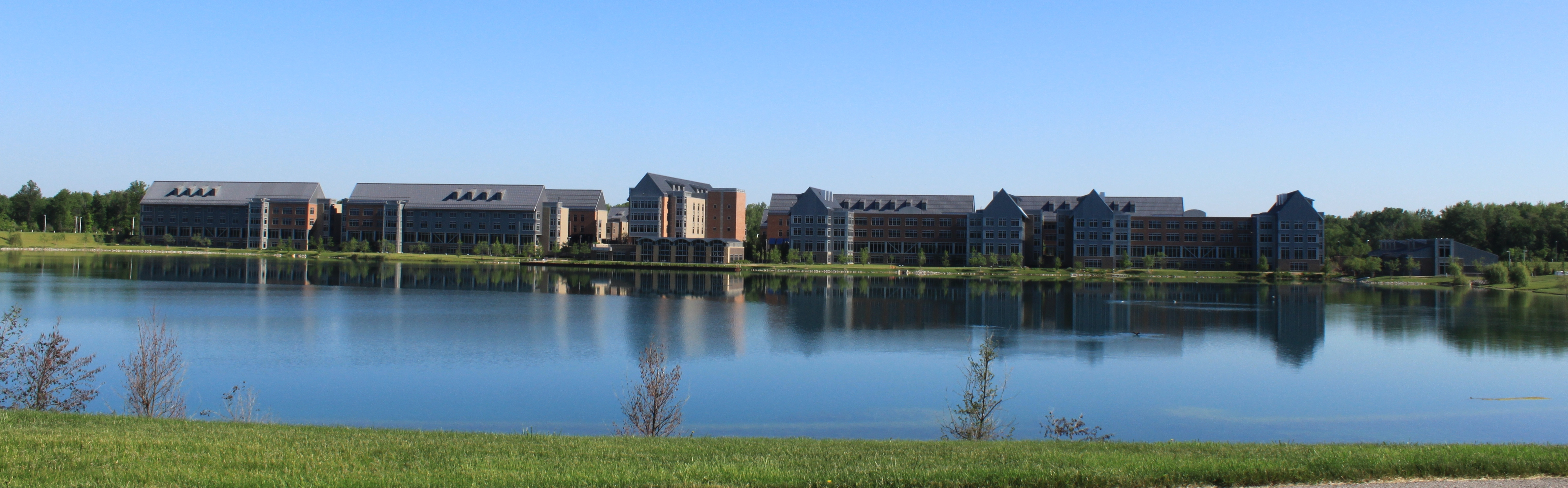 Visteon corporate campus at Grace Lake Corporate Center, Van Buren Township, Michigan